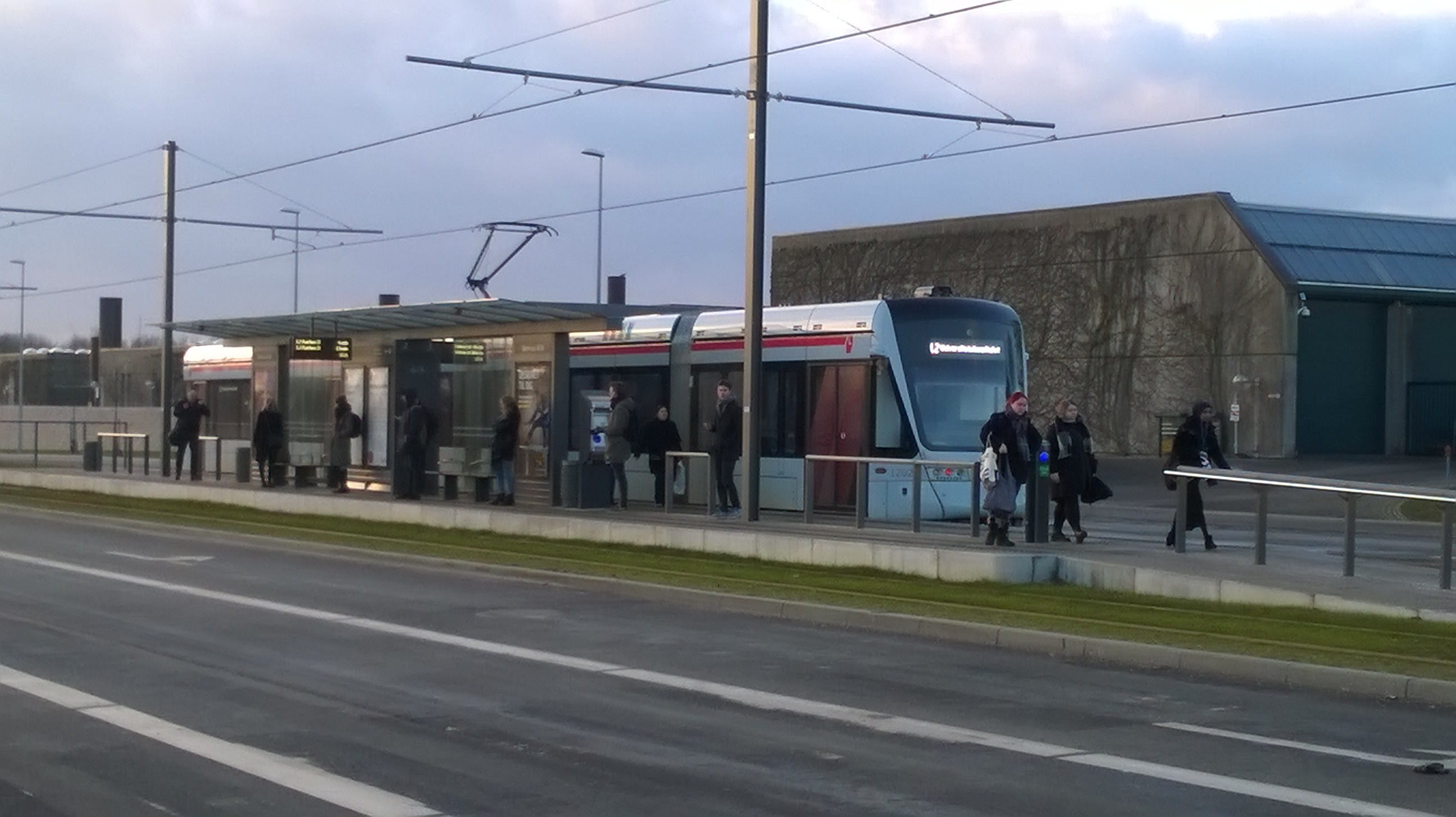 Nehrus Allé Station.